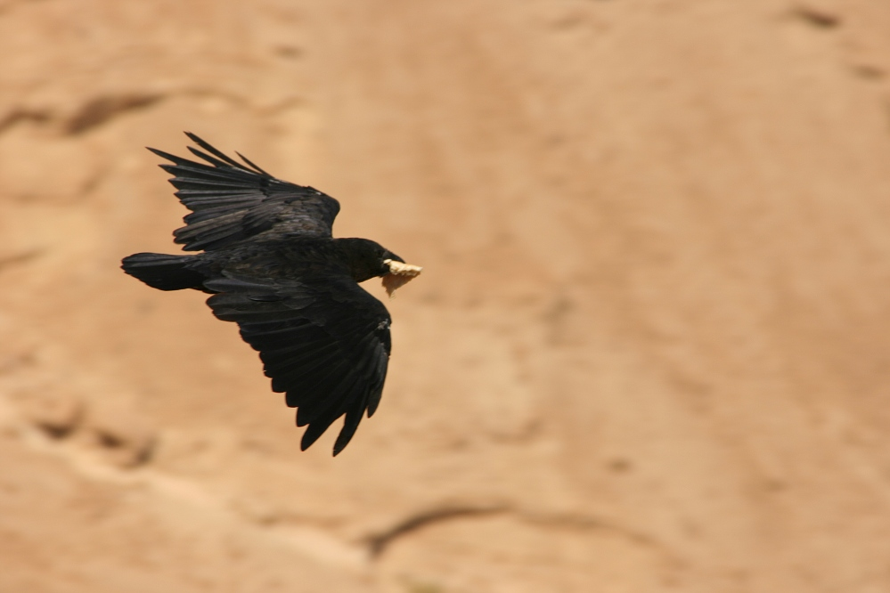 A fan-tailed raven (Corvus rhipidurus) with a piece of pita, Westbank (Israel)